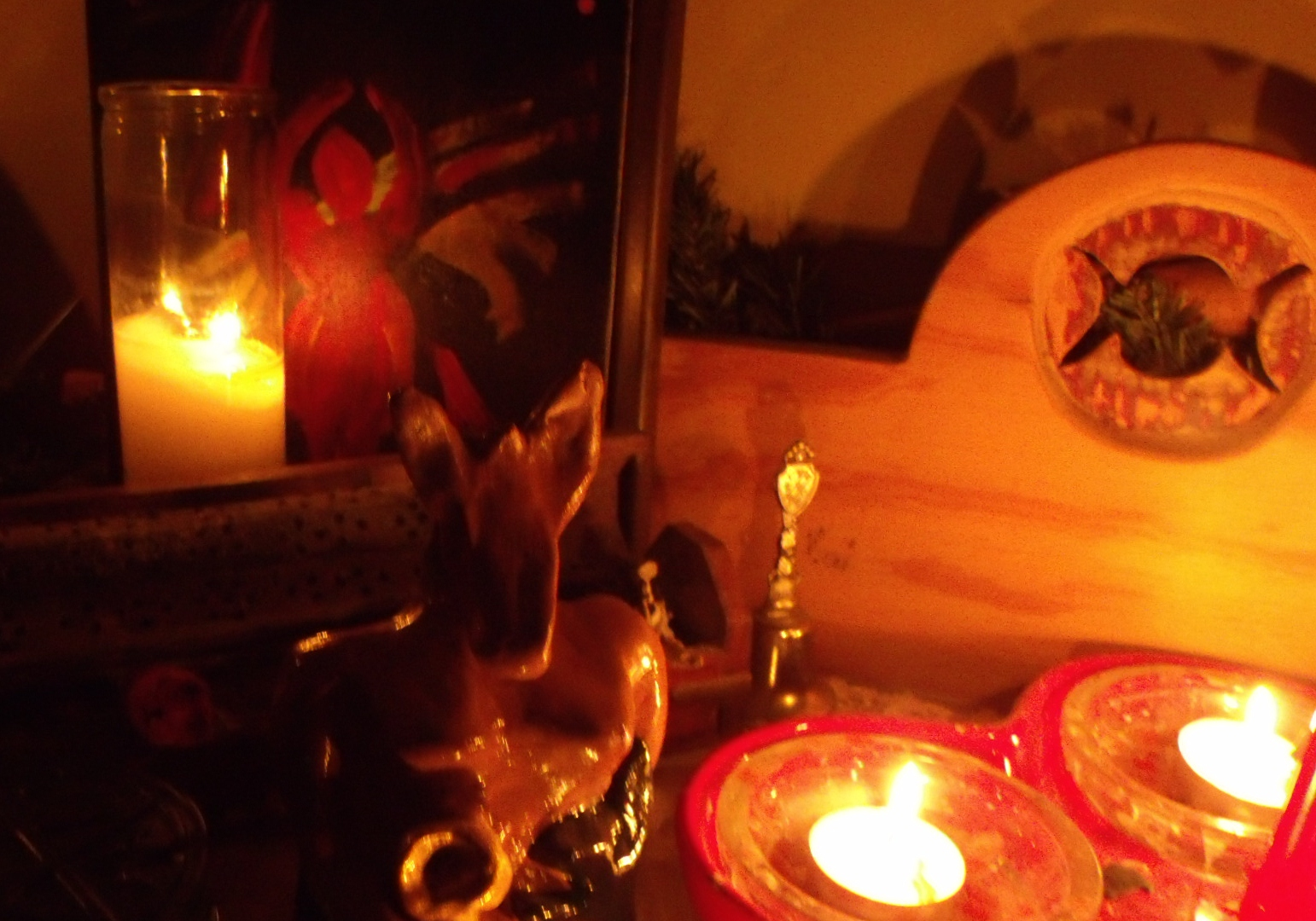 Hecate Altar